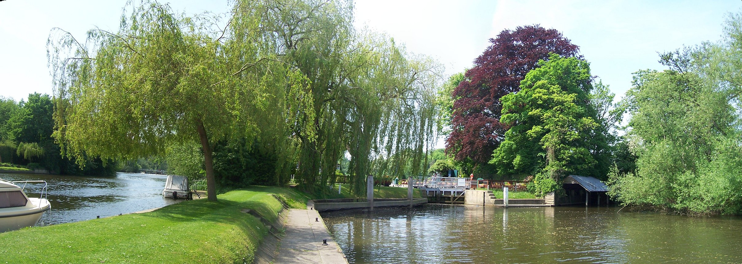 Shiplake Lock